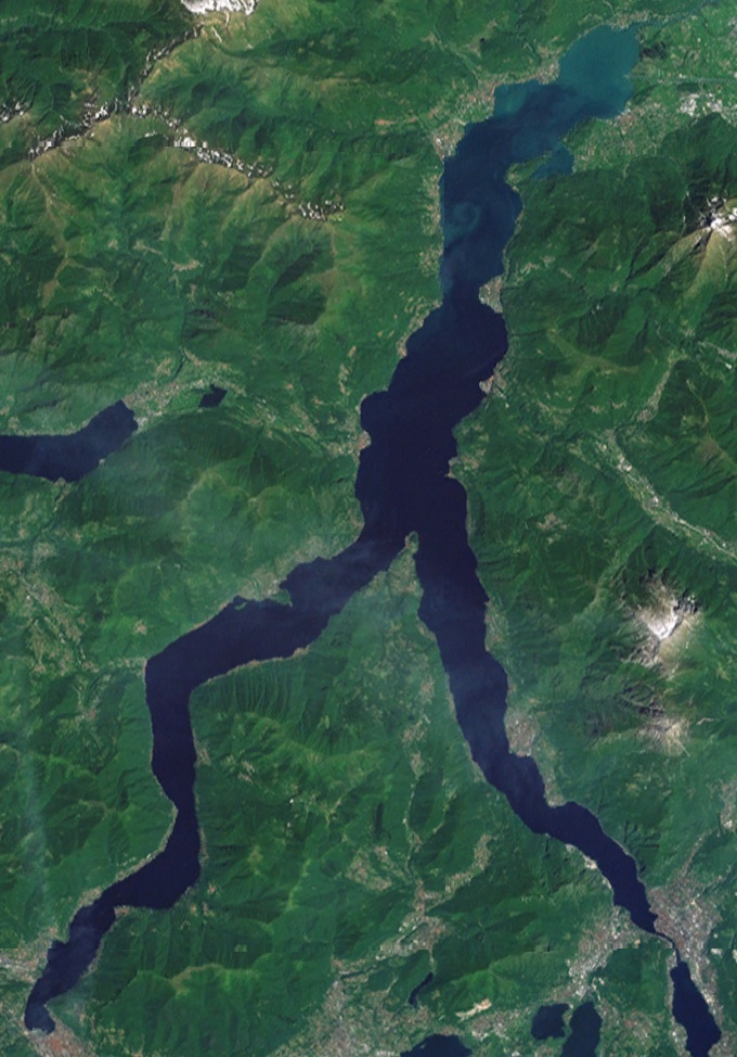 Satellitar photo of Lake Como